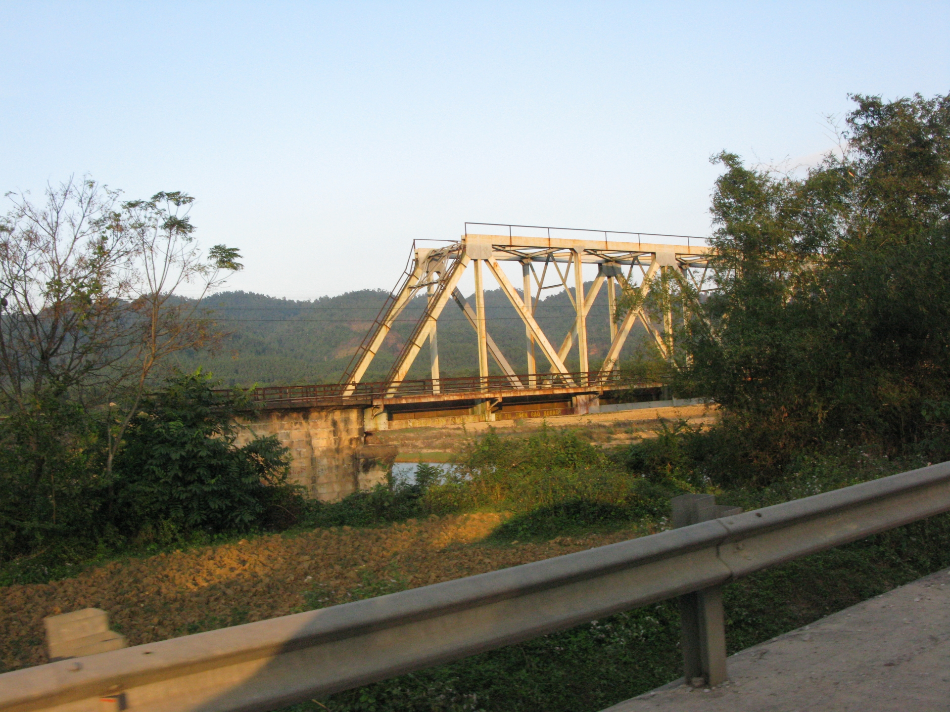 A rail bridge in North-South Railway in Huong Khe District, Ha Tinh Province, Vietnam